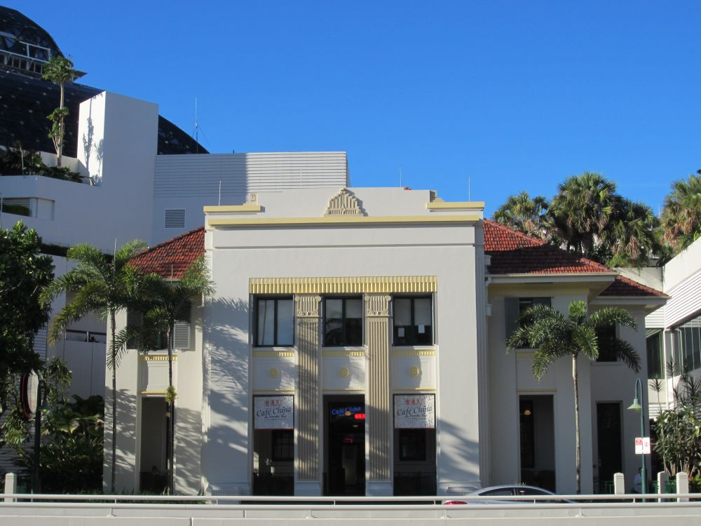 Cairns Customs House (2015)